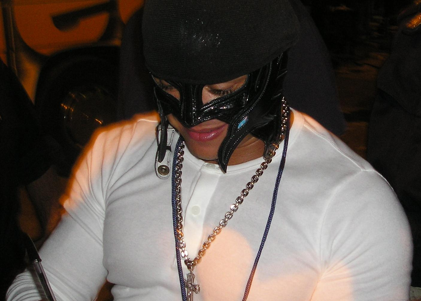 Rey Mysterio on WWE Down'N'Dirty Tour in Florence (Italy)